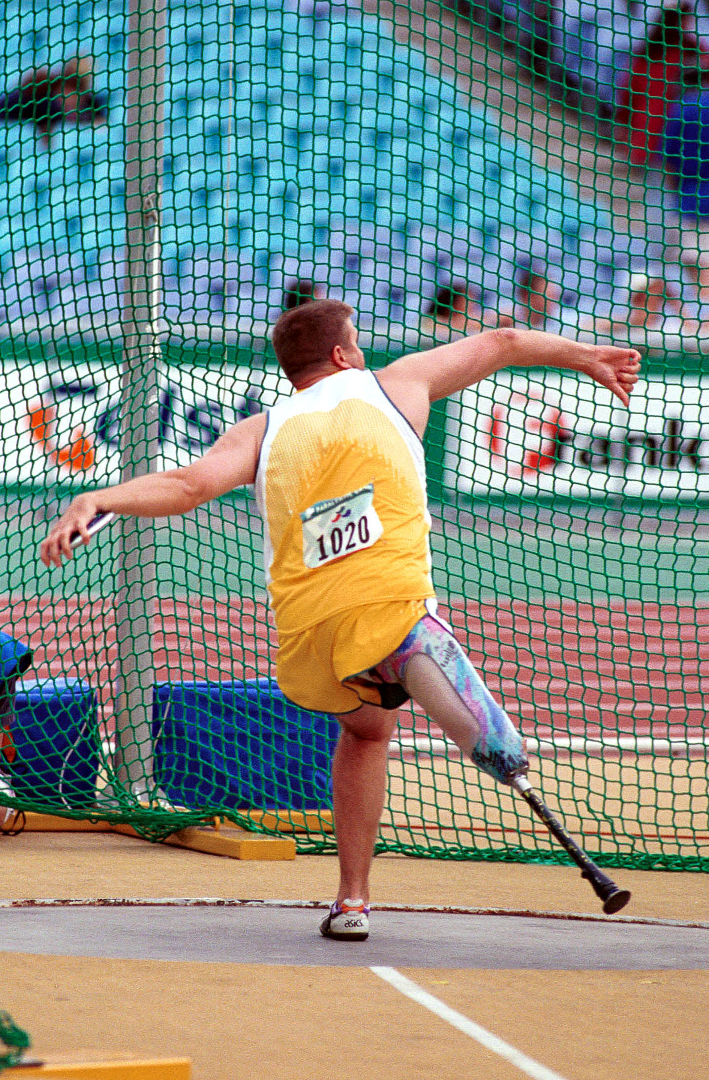 Action shot of Australian field pentathlete Wayne Bell hurling the discus during pentathlon competition at the 2000 Sydney Paralympic Games, Day 04